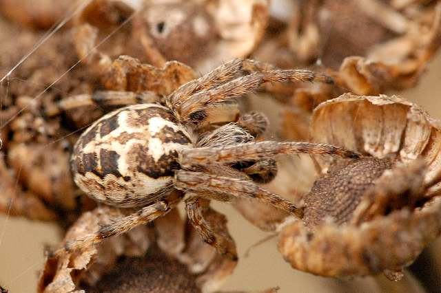 Larinioides patagiatus from Commanster, Belgian High Ardennes .